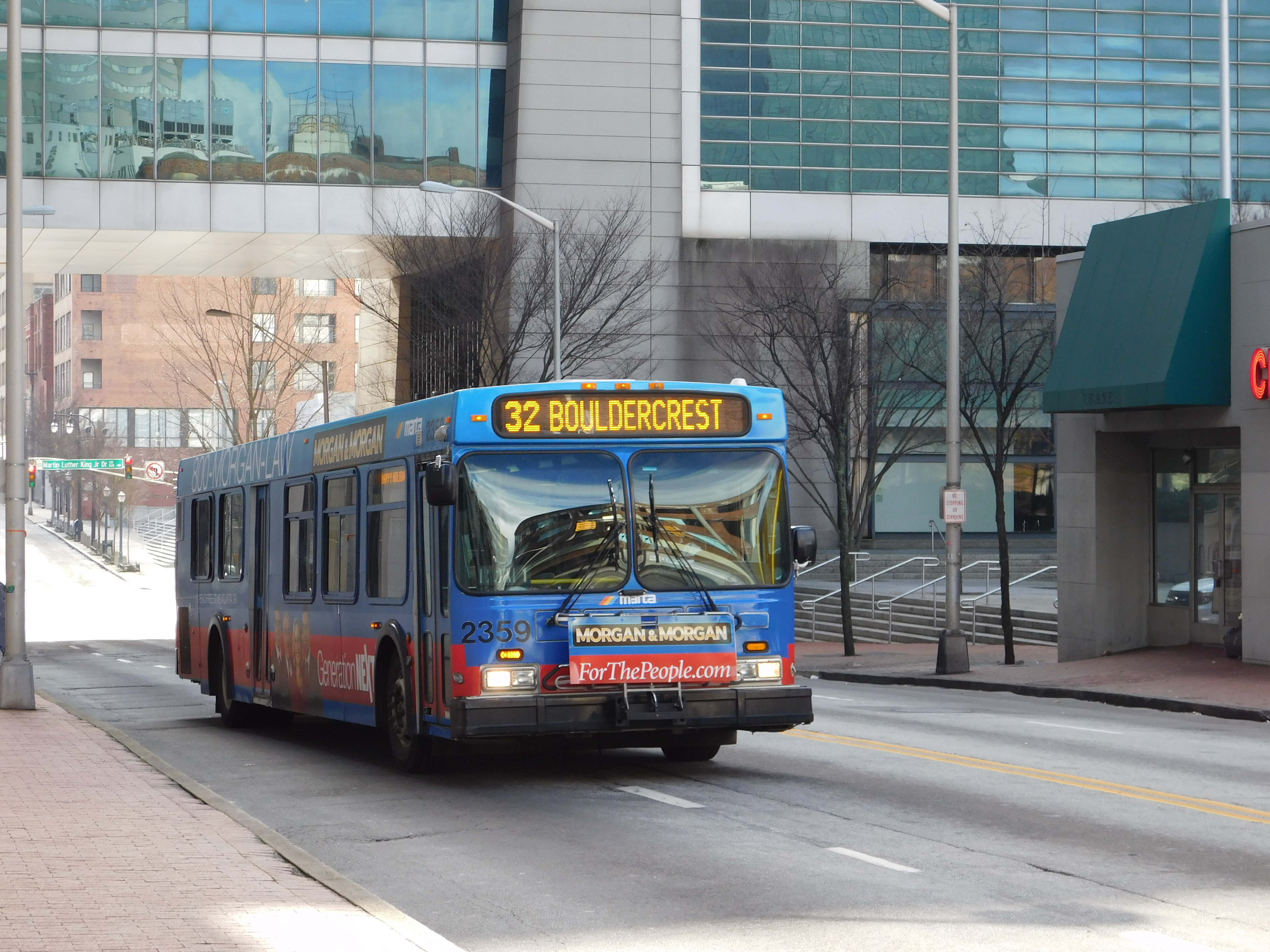 MARTA 2005 New Flyer D40LF 2359 on the 32 Bus approaching Five Points Station.